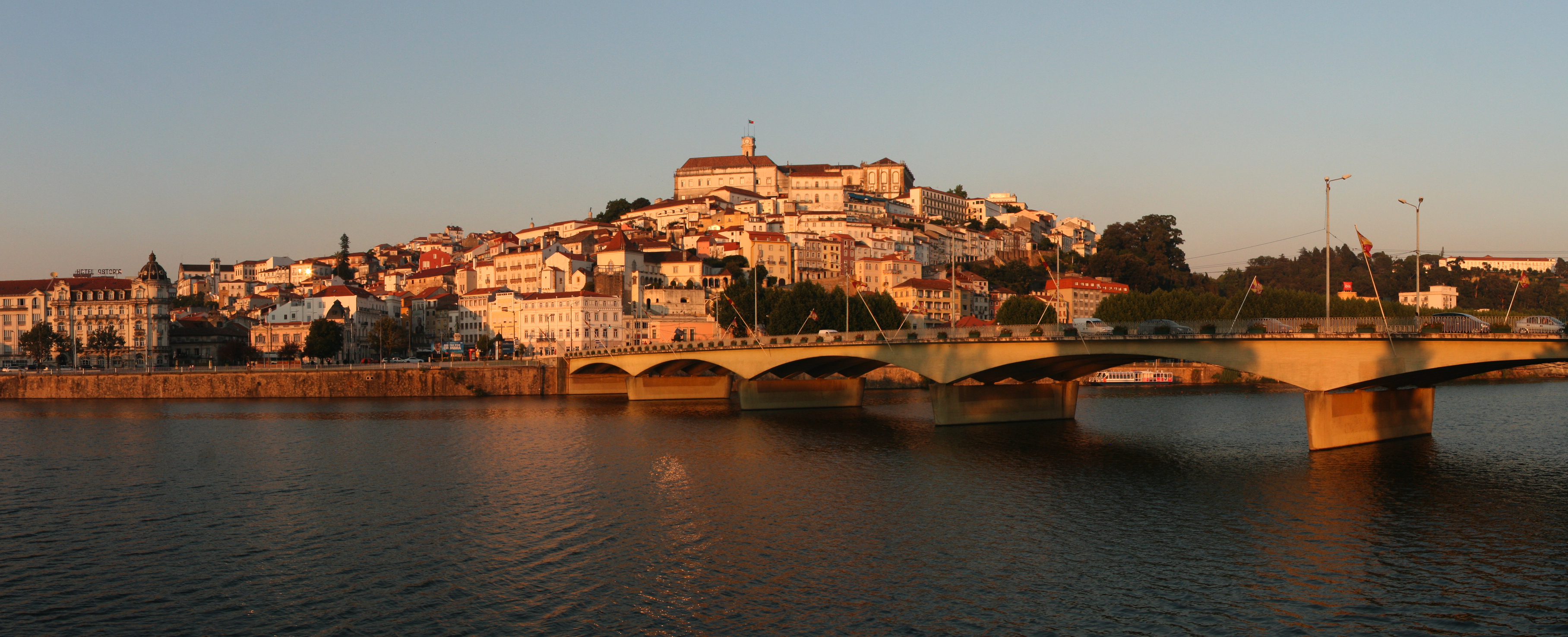 Sunset Light on Coimbra